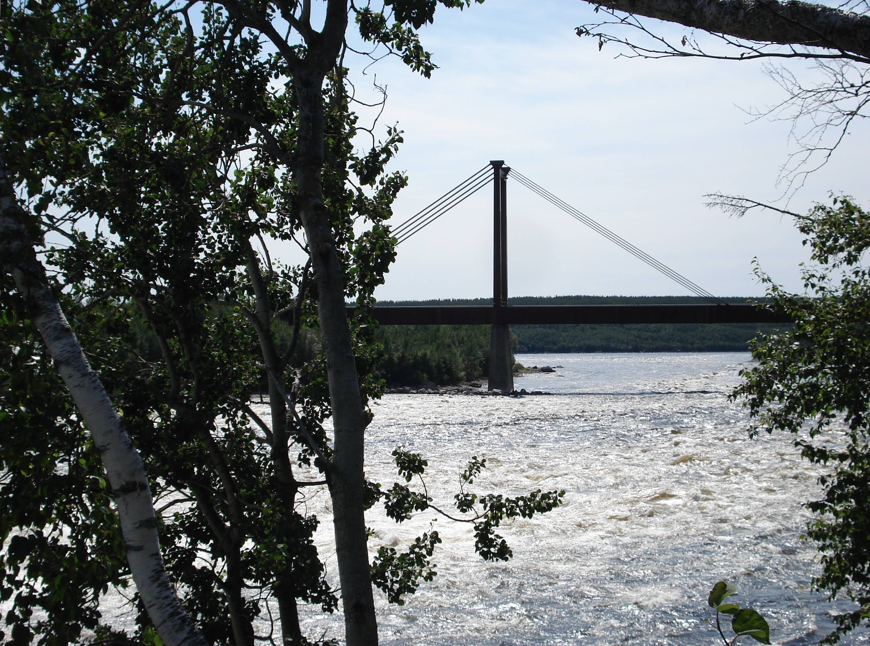 View on Rupert River and James Bay road bridge crossing the river.